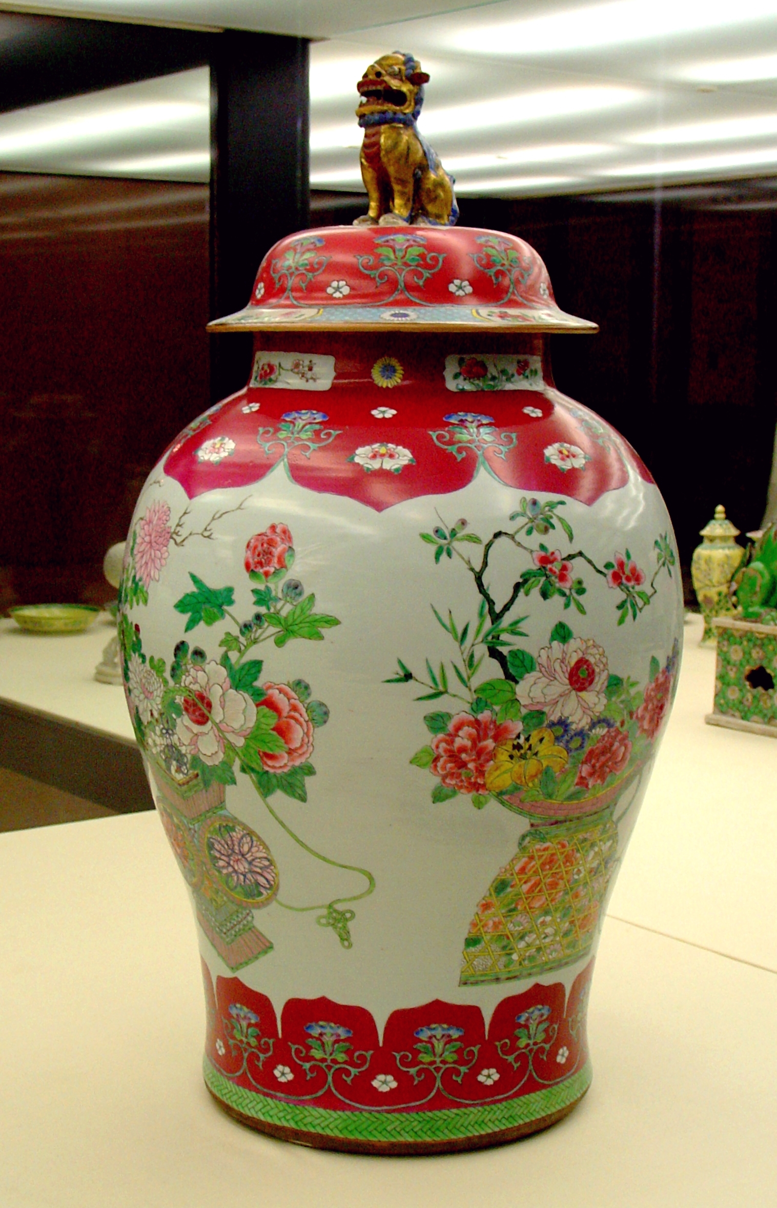 Vase from Qing dynaty, Qianlong period (midle of le XIXe century). Calouste Gulbenkian museum, Lisbon